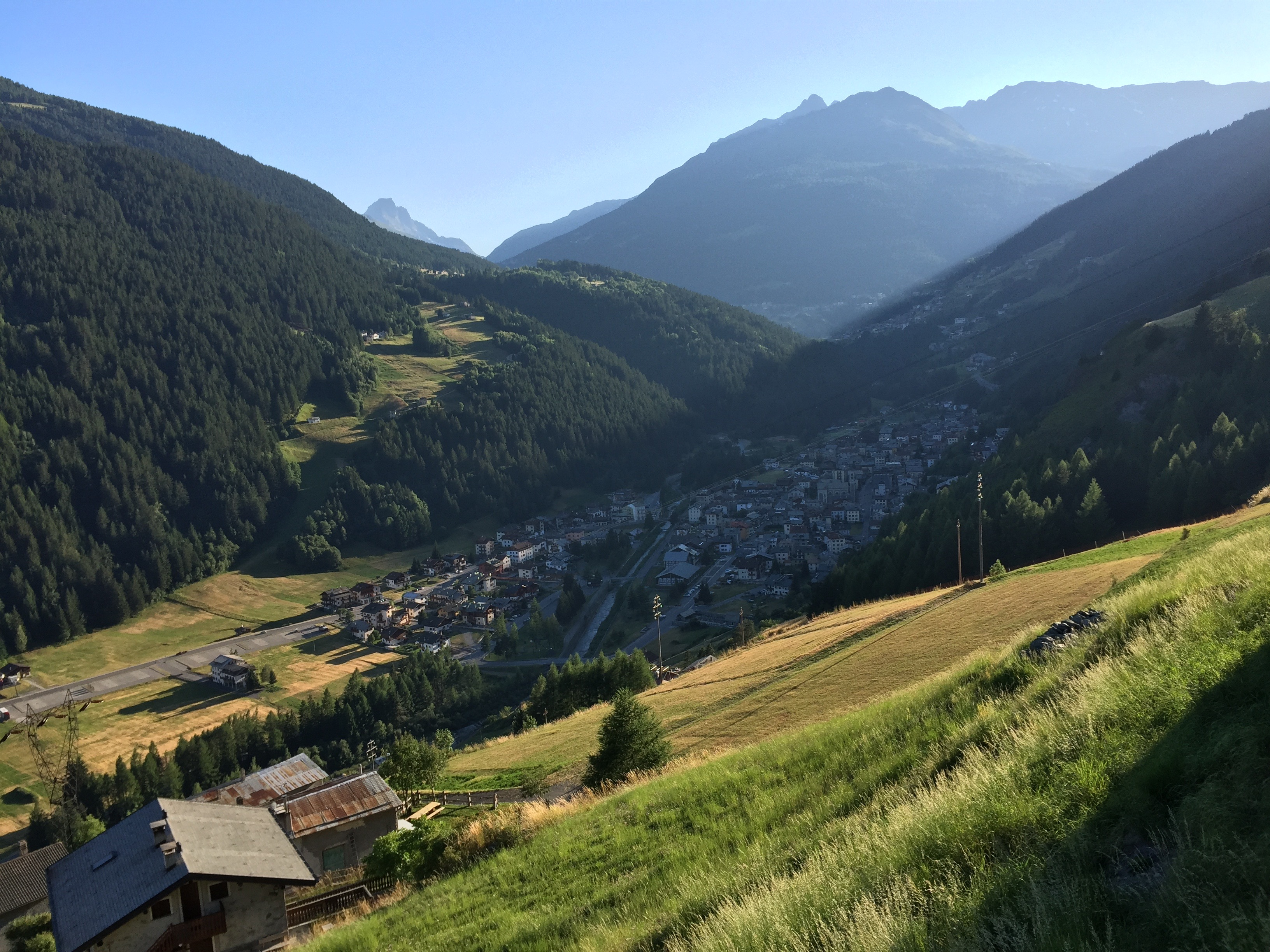 View over Valdidentro from North-East